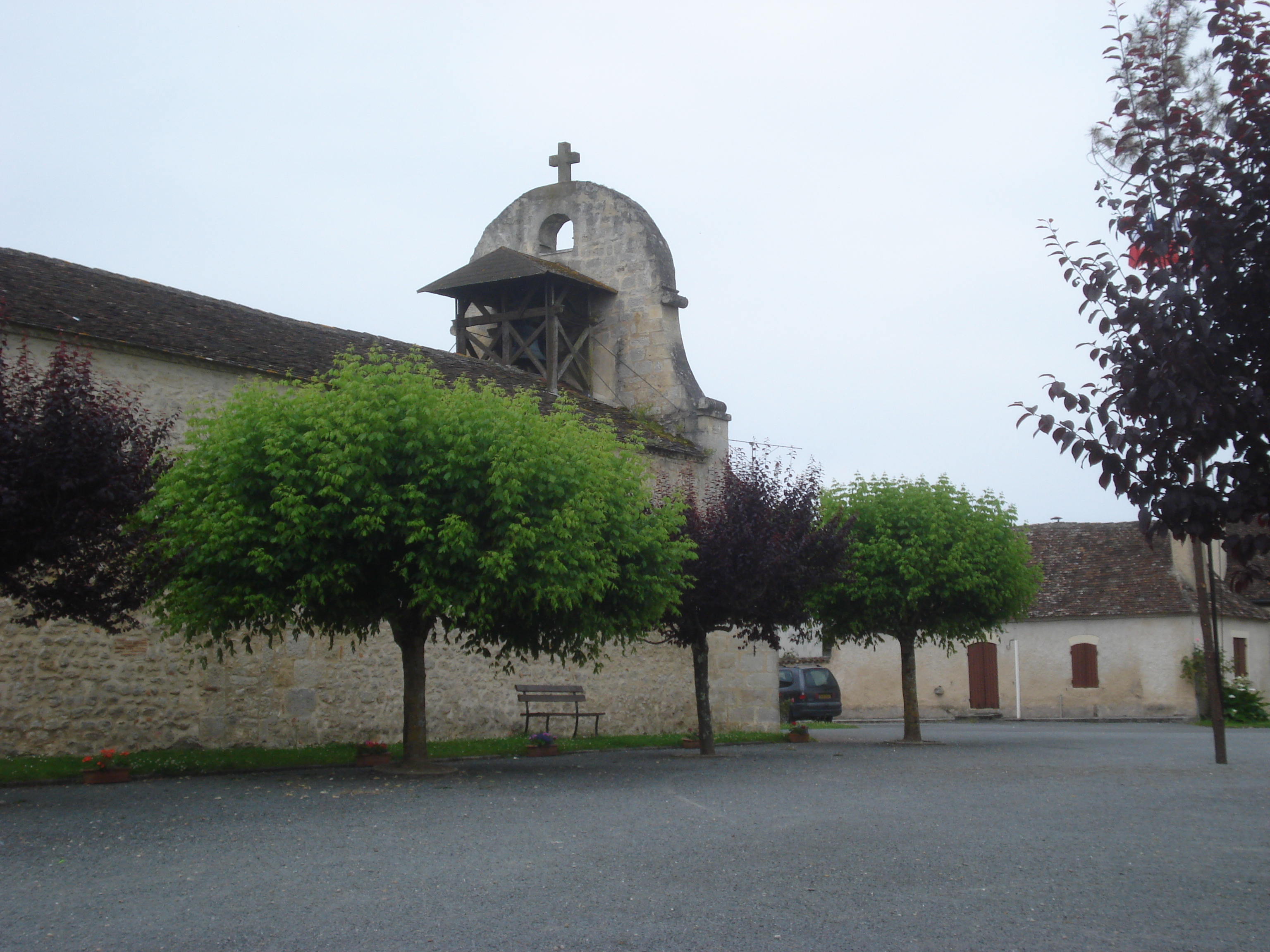 Church of Monfaucon (Dordogne,_Fr).